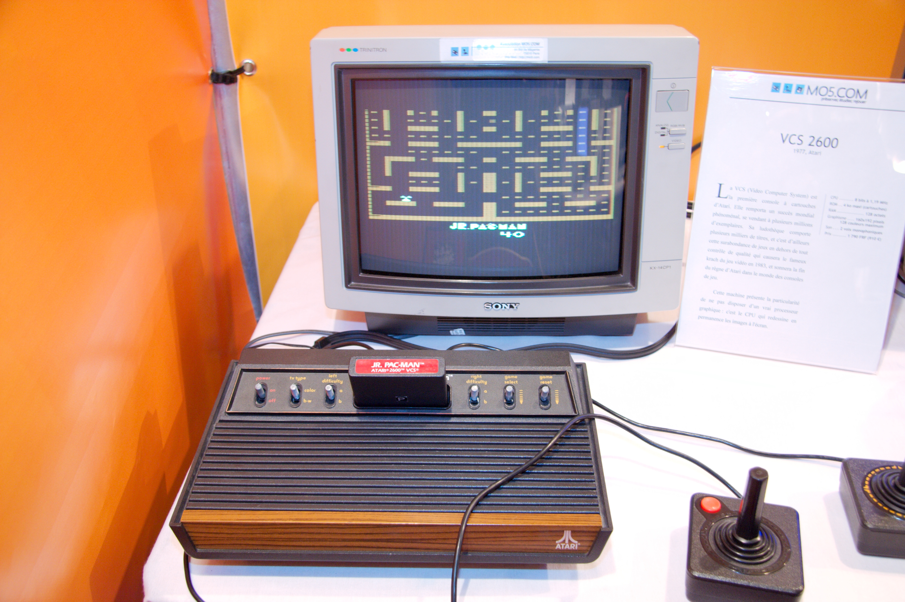 Atari 2600 with JR. Pac-Man cartridge. Festival du jeu vidéo 2008 (video game festival) (Paris, France).